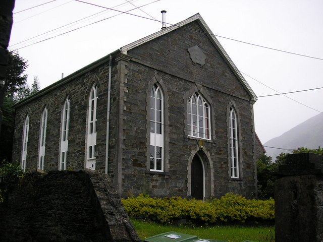 Wesleyan Chapel. dated 1868, in the main street of Dinas Mawddwy. Dated just one year after and standing almost next door to 212857. It needs a double-take on the tops of the windows to confirm that they are different. When the slate industry was at its height, the population here was much higher (and more devout) but were these two chapels and Bethel, just round the corner, all full of a Sunday? See Richard Knight Williams' list of chapels: .